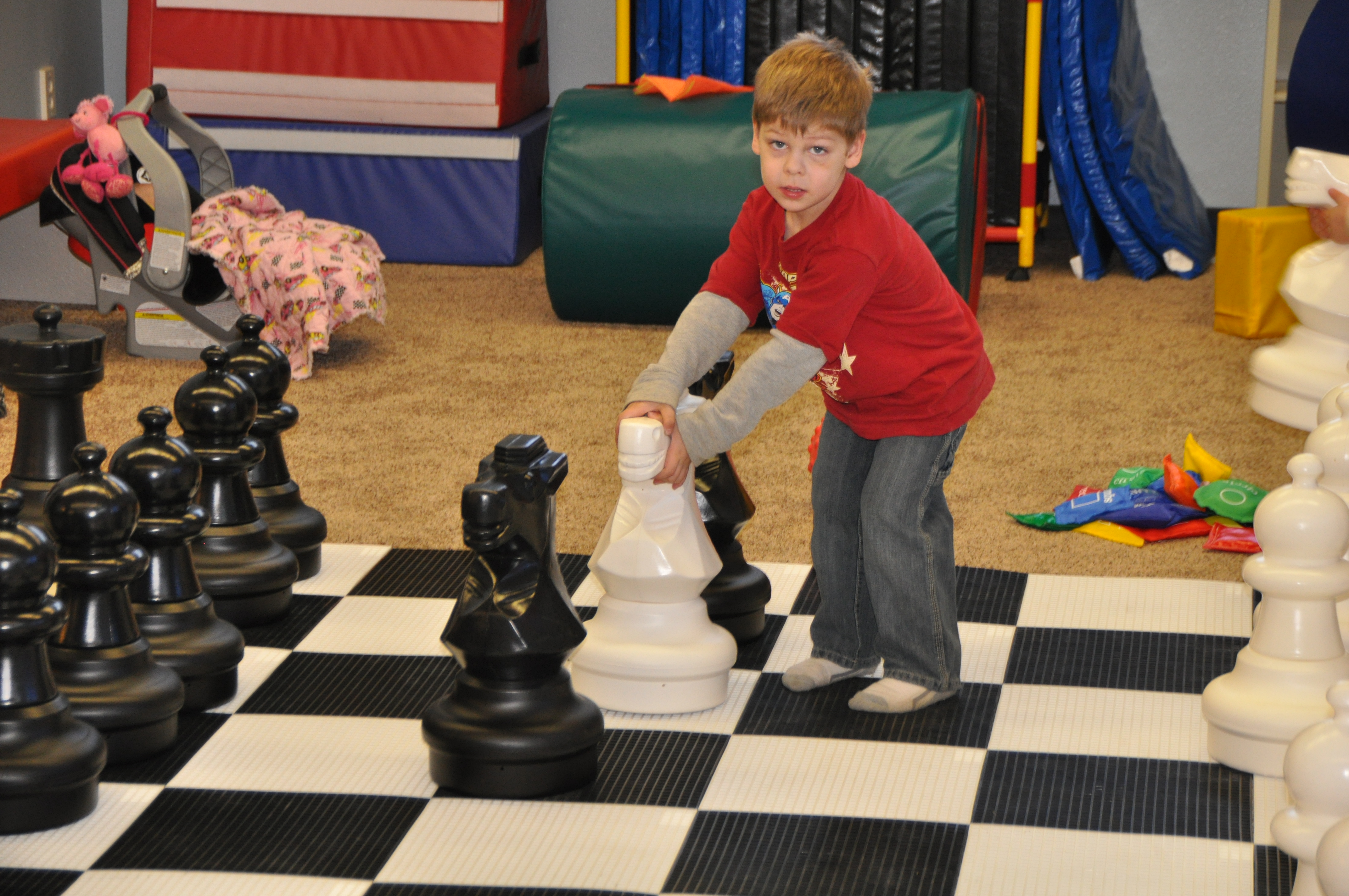 Aboard Marine Corps Logistics Base Barstow, Colton Sheehy-Perry takes on the fundamentals of moving a giant knight chess piece during the grand opening of the multipurpose room in building 375 Feb. 10.